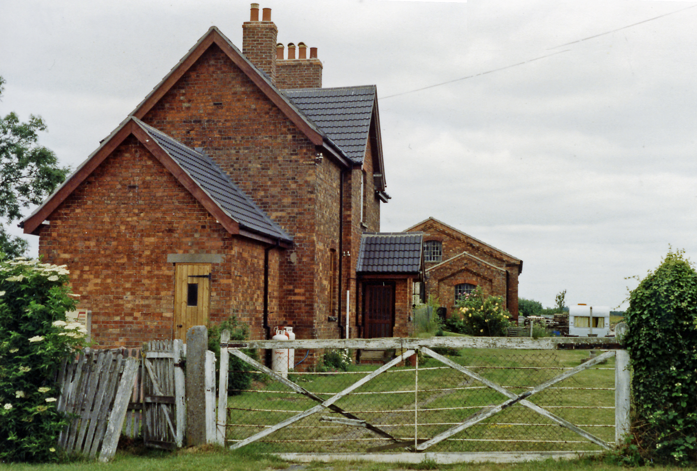 Former Aswarby & Scredington station, 1992. View northward, towards Sleaford: ex-GNR Bourne - Sleaford branch. The station and line closed to passenger services from 22/9/30, but not to goods until 6/7/56. This is a well-preserved station.